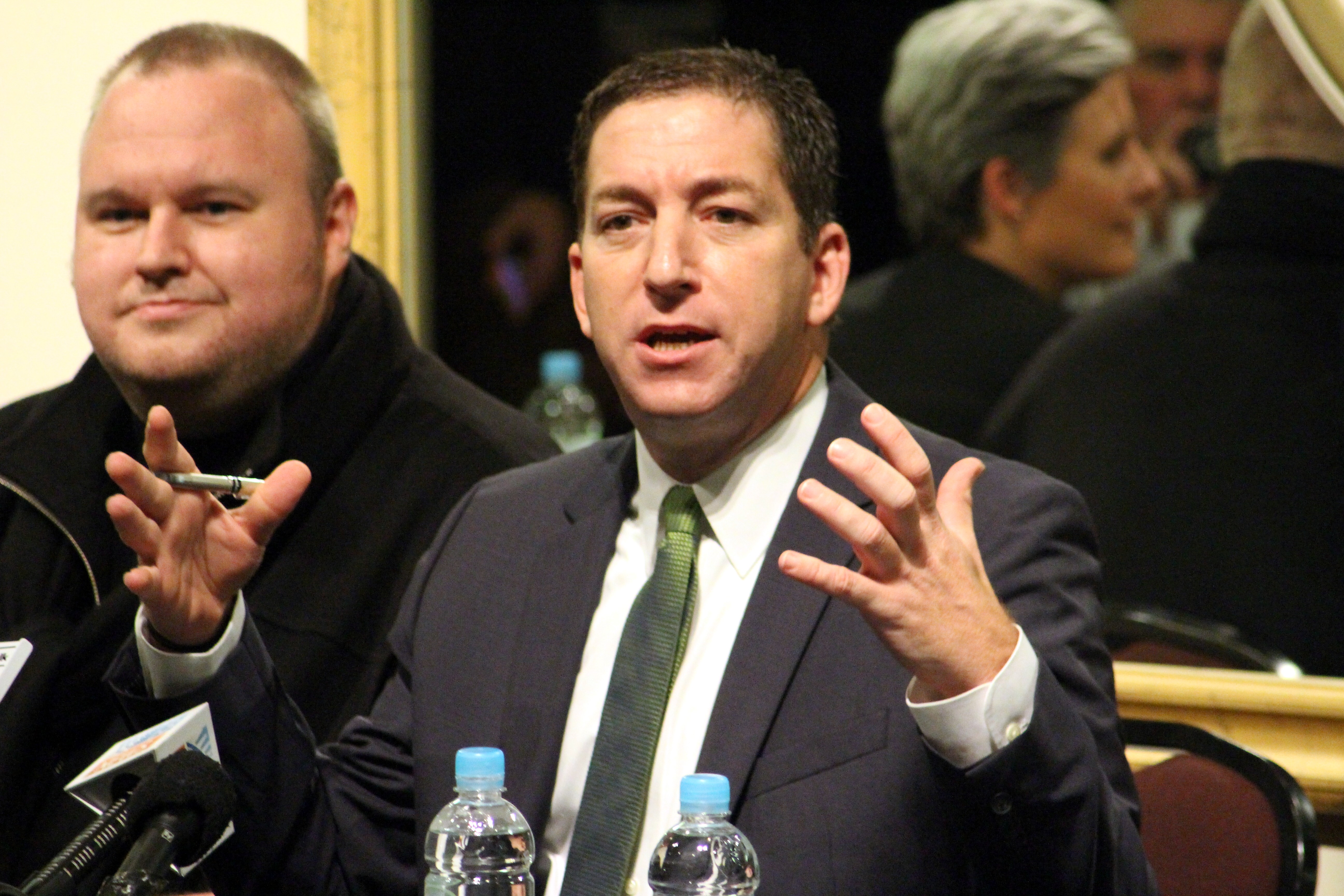 Glenn Greenwald at the Moment of Truth event in Auckland, NZ, September 2014.